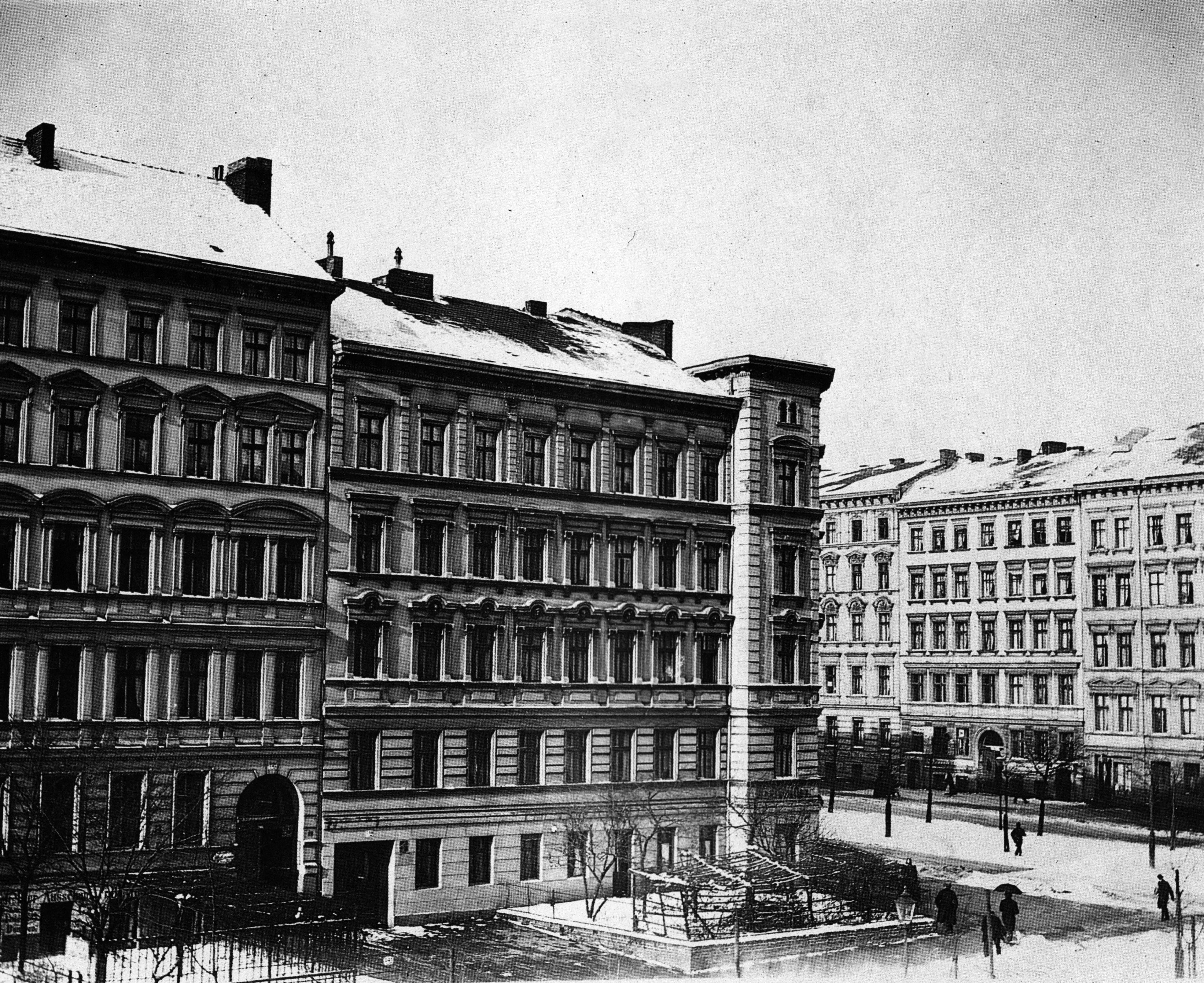 Apartment blocks in Prenzlauer Allee, Königsstadt, Berlin (now in Prenzlauer Berg district.